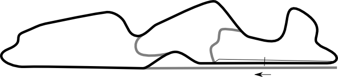 Layout of Autódromo de Toluquilla in Guadalajara, México